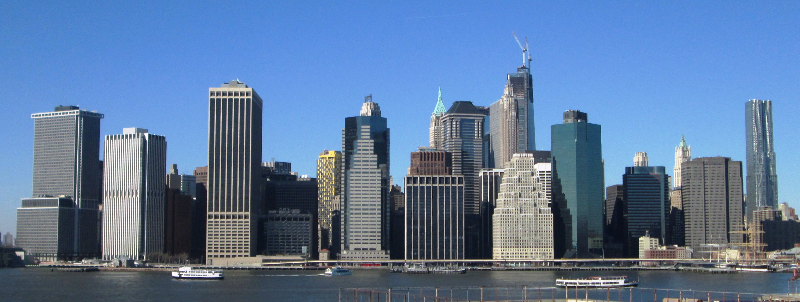 The skyline of lower Manhattan as seen from the Brooklyn Heights Promenade.